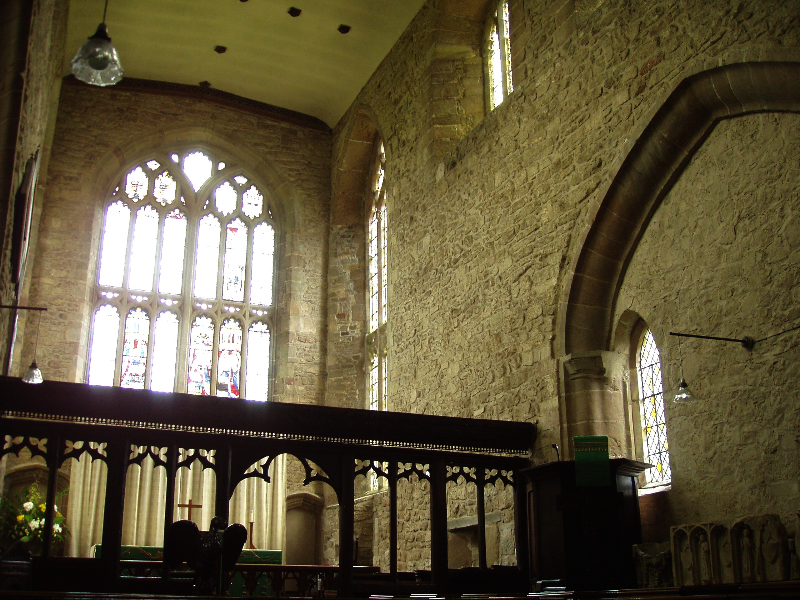 Little Malvern Priory Church, in Malvern, Worcestershire, England. Interior details. Photograph taken by me, June 2005.